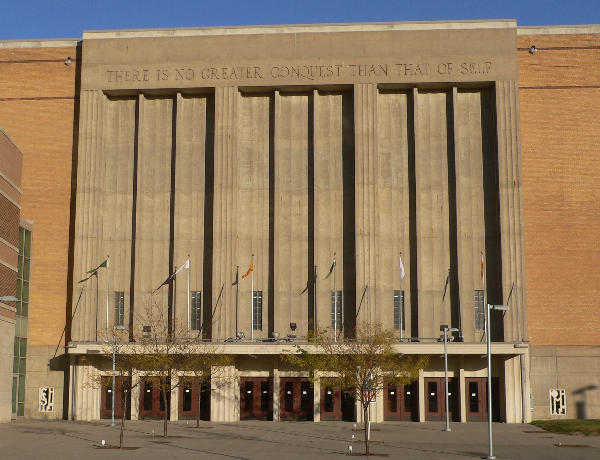 Sioux City Municipal Auditorium, now part of the Tyson Events Center, in Sioux City, Iowa: center of west side.